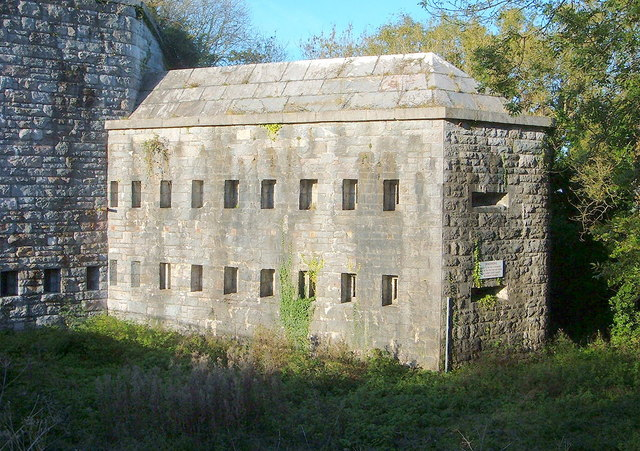 Scraesdon Fort - Caponier Picture of a Fortified Caponier. The fire coming from here would sweep across the entrance to the fort, inflicting devastating damage on any attempt to storm the fortificaton. To avoid fire from one caponier bearing on the next, caponiers are usually set at alternate corners of the fort, so that they fire towards a blank wall at the opposite end of the ditch, giving full coverage of the ditch without subjecting the next caponier to fire. The length of the straight sections of the ditch is chosen so that it can be covered by fire from a single caponier. Caponiers are often wedge shaped so that they can fire down both angles of the ditch. Caponiers are a common feature of 19th century fortification, and are found on almost all the Victorian forts of Malta and the Palmerston Forts in UK - like this one.